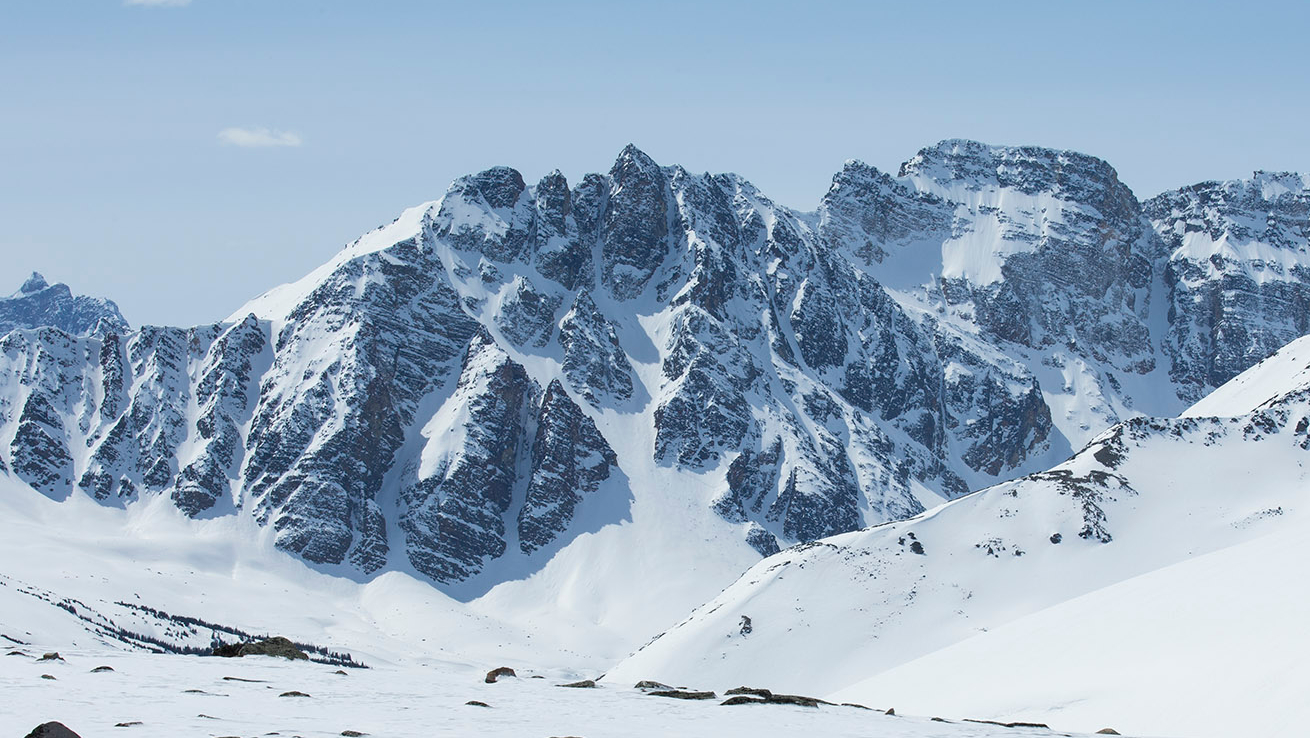 Terminal Mountain seen from The Whistlers, Jasper National Park, Alberta